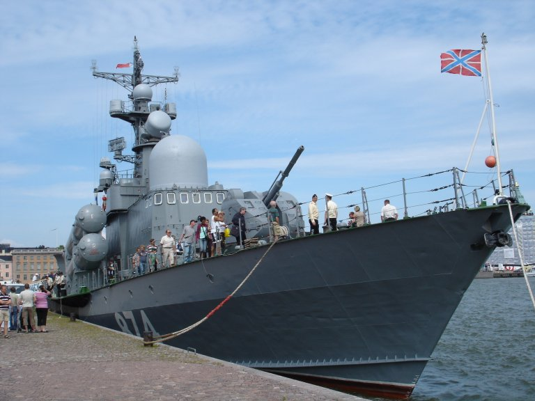 Russian missile corvettes project 12411 (Tarantul-III class) «Morshansk» visiting Helsinki 2007-07-04